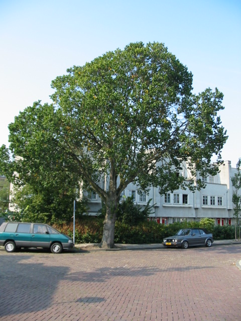 Ulmus glabra 'Exoniensis', amsterdam brink; Photo taken by Ronnie Nijboer